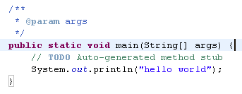 Brace matching example